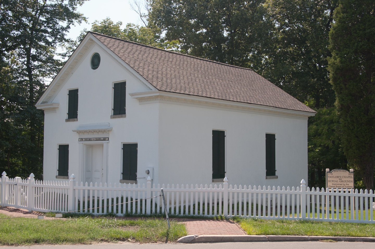 Taylor's Chapel and Burial Ground in Baltimore, Maryland.